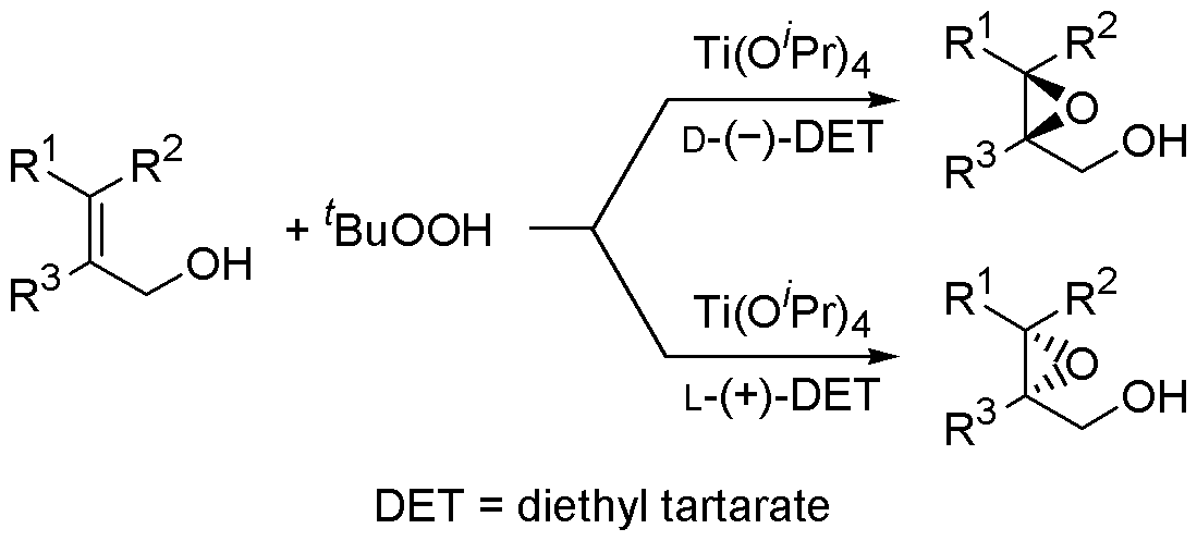 Reaction scheme of Katsuki-Sharpless asymmetric epoxidation.